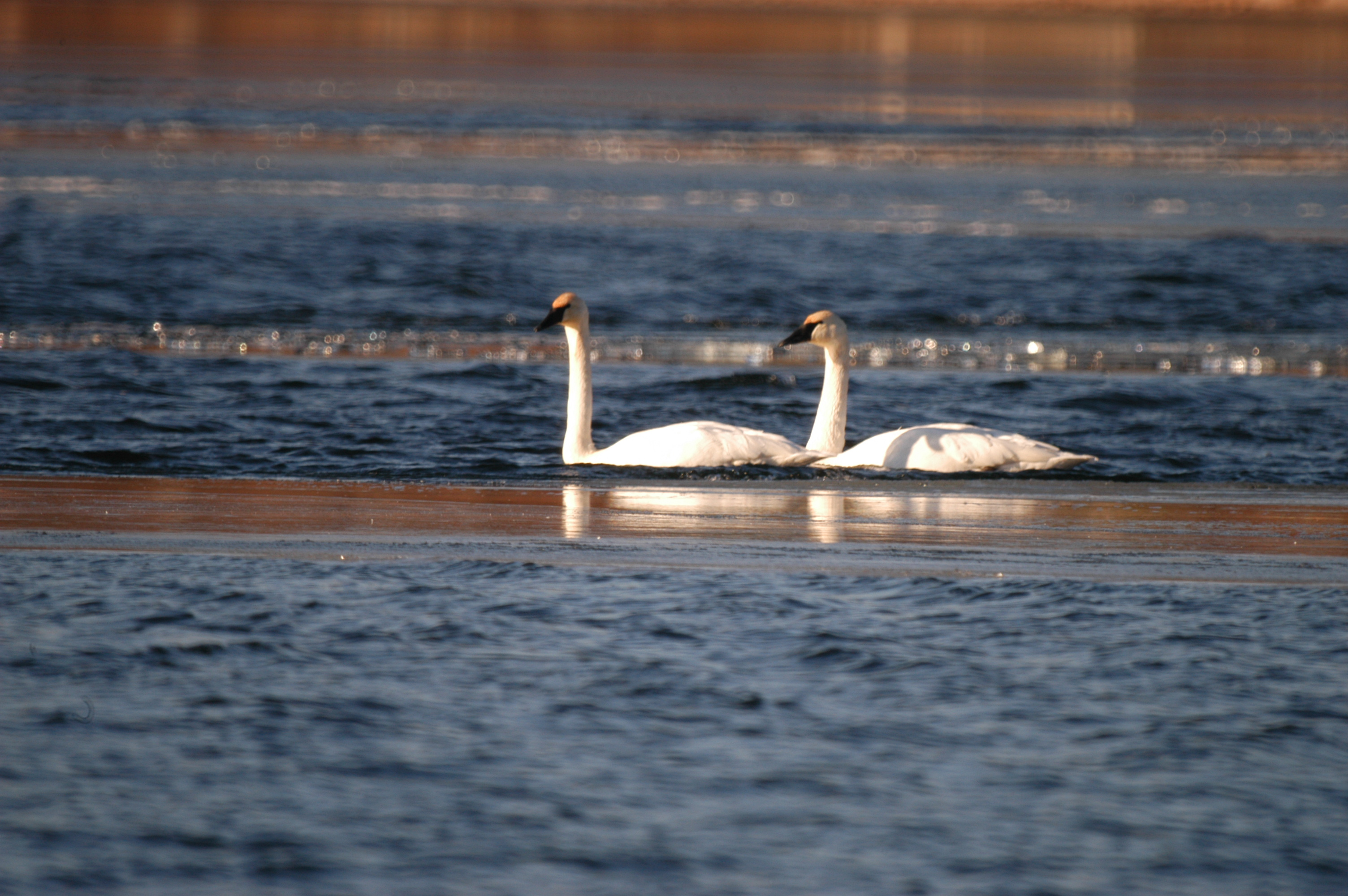 Picture of Trumpeter Swans on Christmas Lake taken before ice-in in 2006. Photo by Karen Ann Vance.